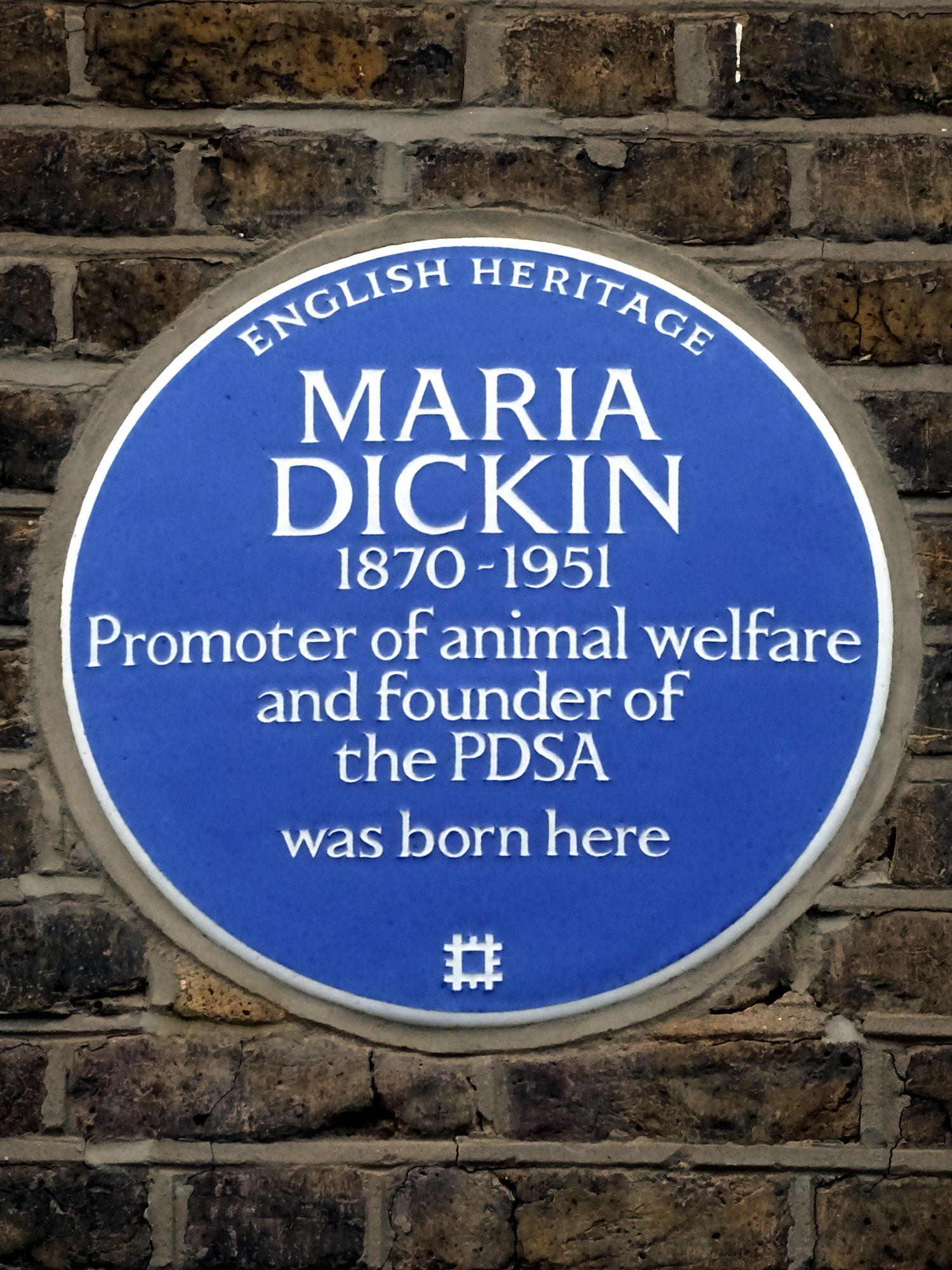 Blue plaque erected in 2015 by English Heritage at 41 Cassland Road, Hackney, E9 7AL, London Borough of Hackney